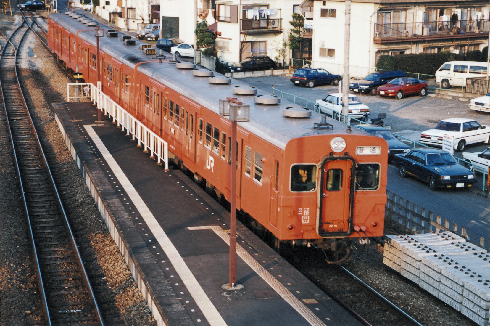 Diesel train formerly used by JR East on Hachiko Line. Location unrecorded(maybe at Higashi-Fussa Station, added by LERK); between Hachioji Station and Komagawa Station